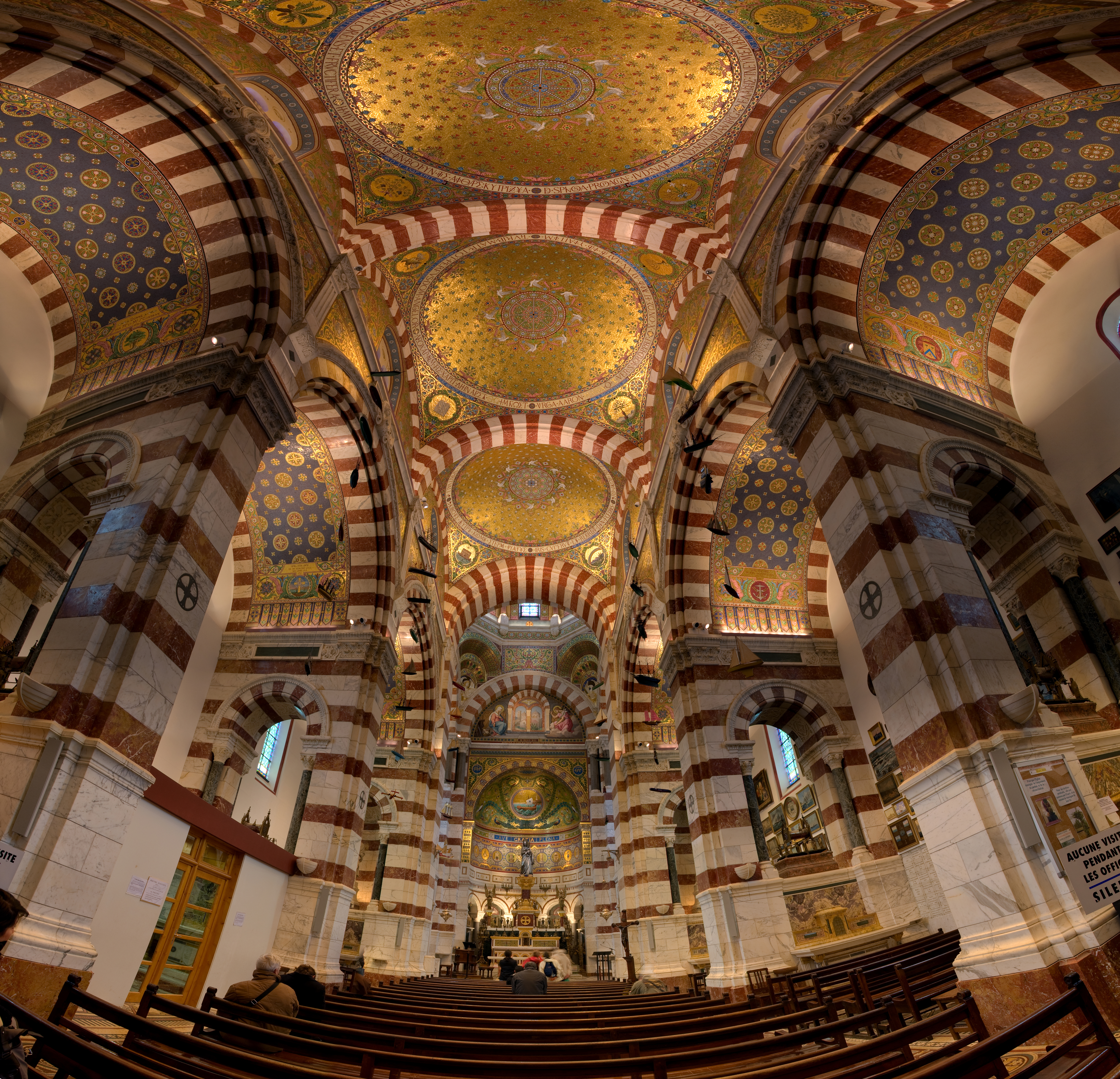 Interior view of the church Notre-Dame-de-la-Garde